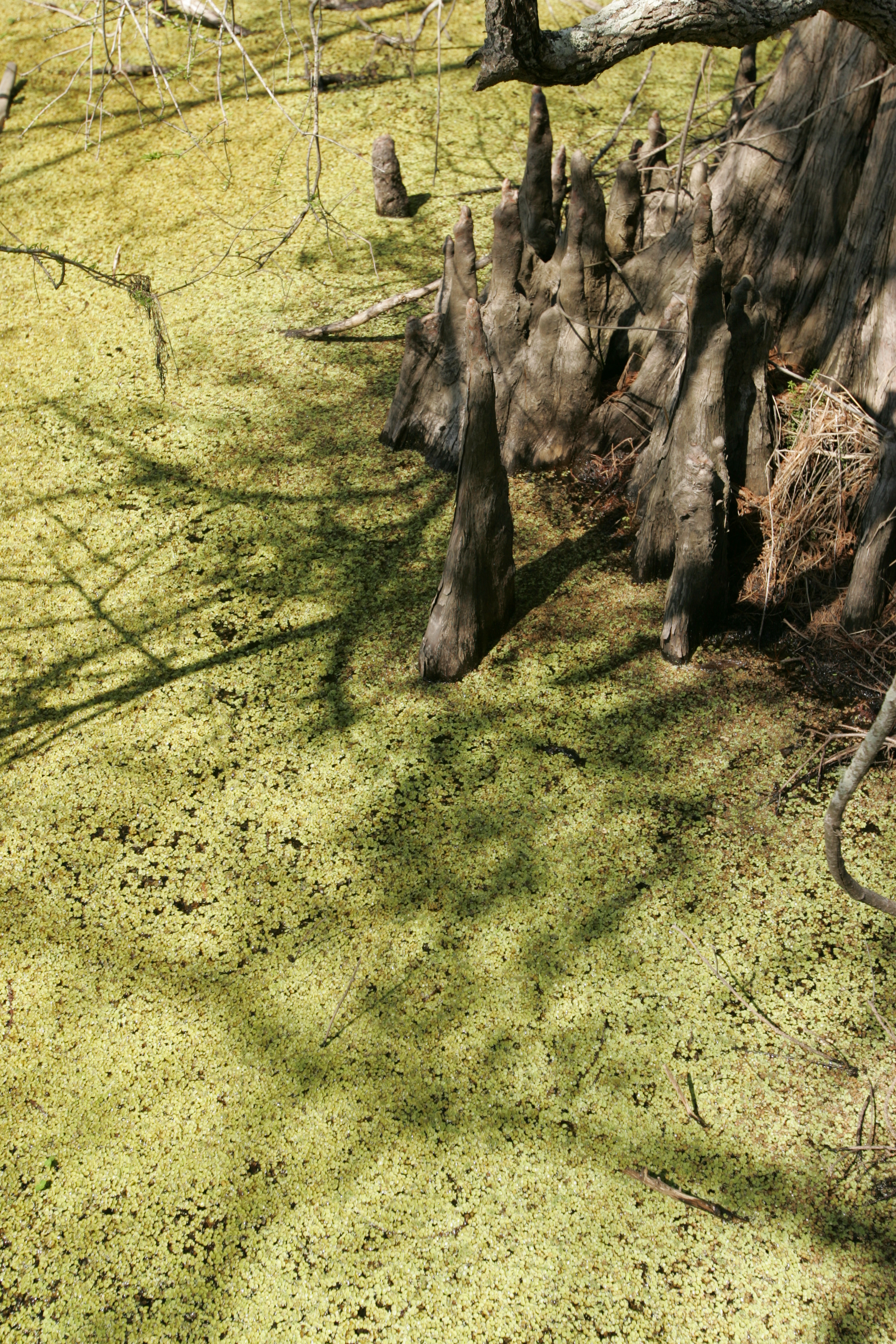 Bald cypress (Taxodium distichum) knees in duckweed [1]